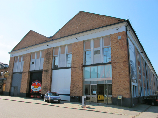 Saab Car Museum in Trollhättan in Sweden: Entrance